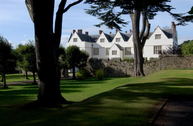 Exterior view of St Fagans Castle at St Fagans: National History Museum